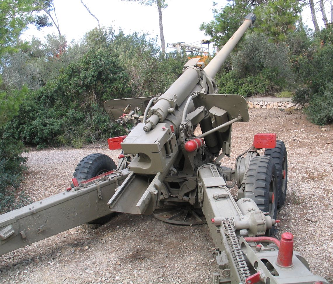 Description: Soviet M-46 130 mm cannon in Beyt ha-Totchan, Zichron Yaakov, Israel. 2005. Source: Photo by me, User:Bukvoed.